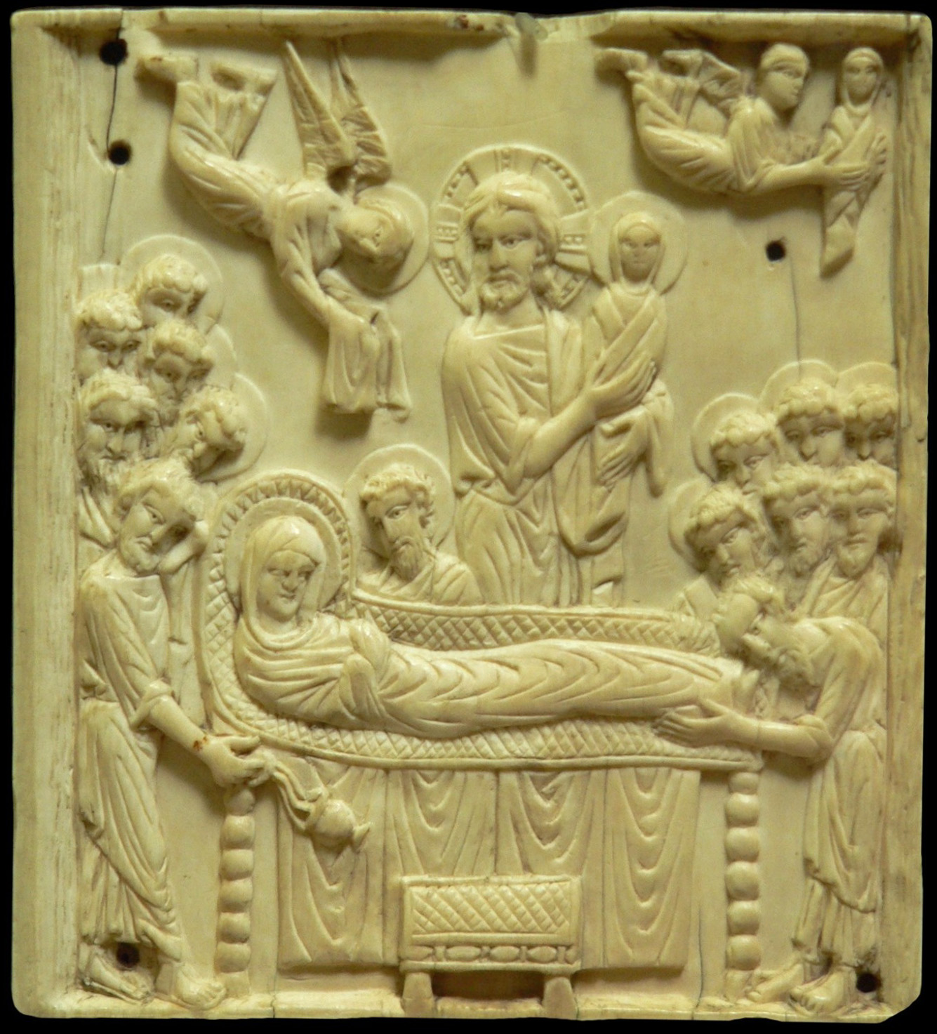 Plaque from a triptych (?) then from a binding. Ivory, Constantinople, late 10th century–early 11th century.